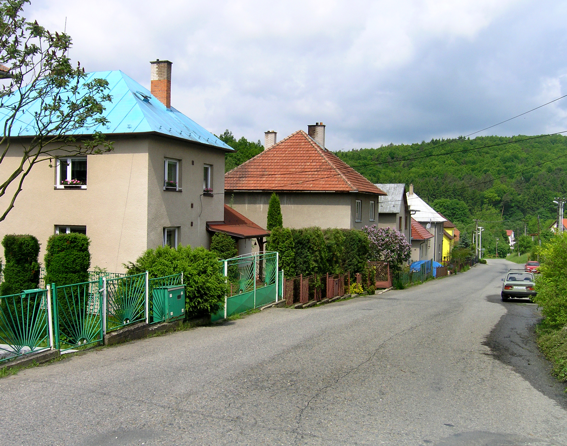 Dešná village, Czech Republic